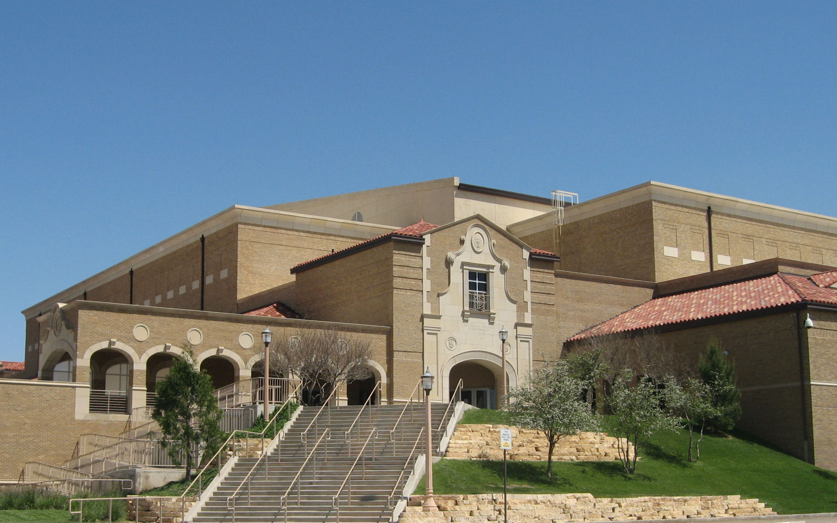 United Spirit Arena at Texas Tech University in Lubbock, Texas, US Category:Texas Tech University images